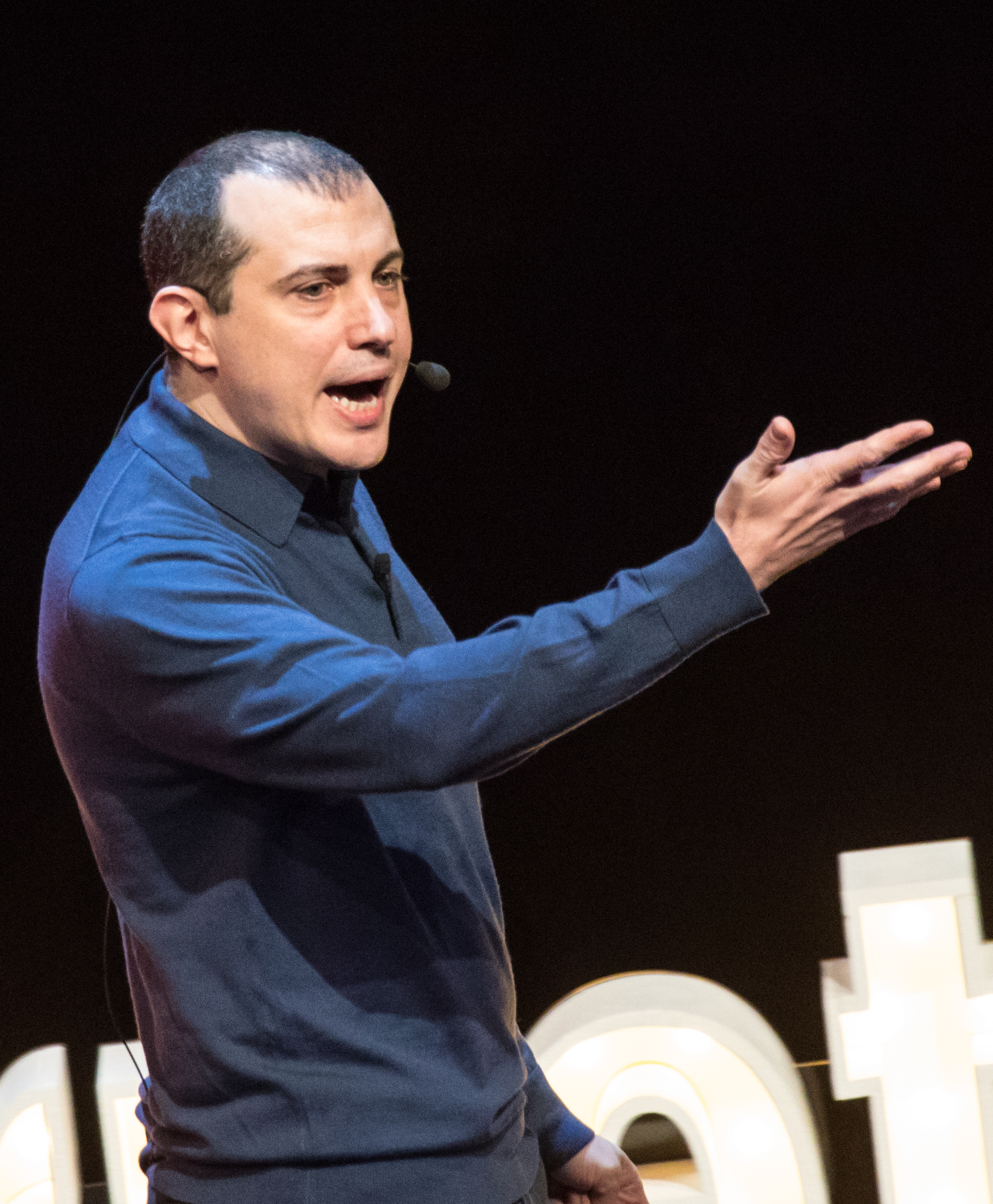 Keynote: Andreas Antonopoulos